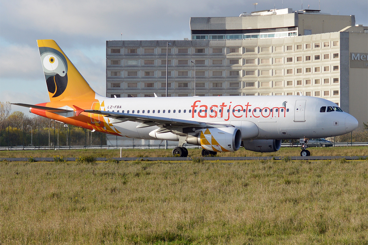 Fastjet Airbus A319-112 (LZ-FBA), leased from Bulgaria Air, at Paris-Charles de Gaulle Airport